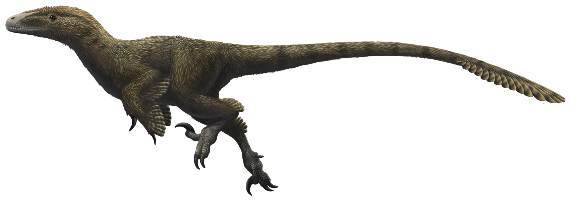 Utahraptor ostrommaysorum, early Cretaceous dromaeosaur from North America. Digital, based on Scott Hartman's skeletal.